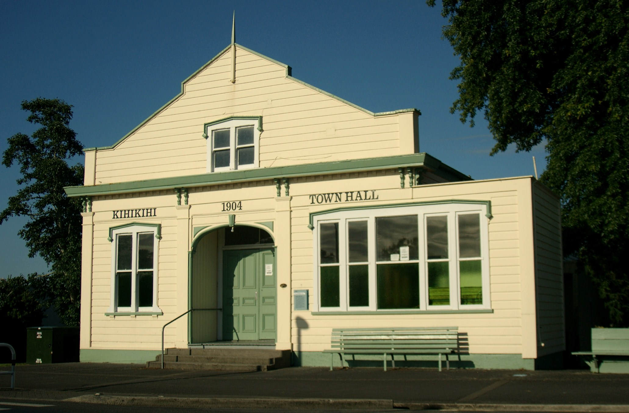 The Town Hall in Town Hall is registered with the New Zealand Historic Places Trust as a Category II heritage building, with registration number 4332.